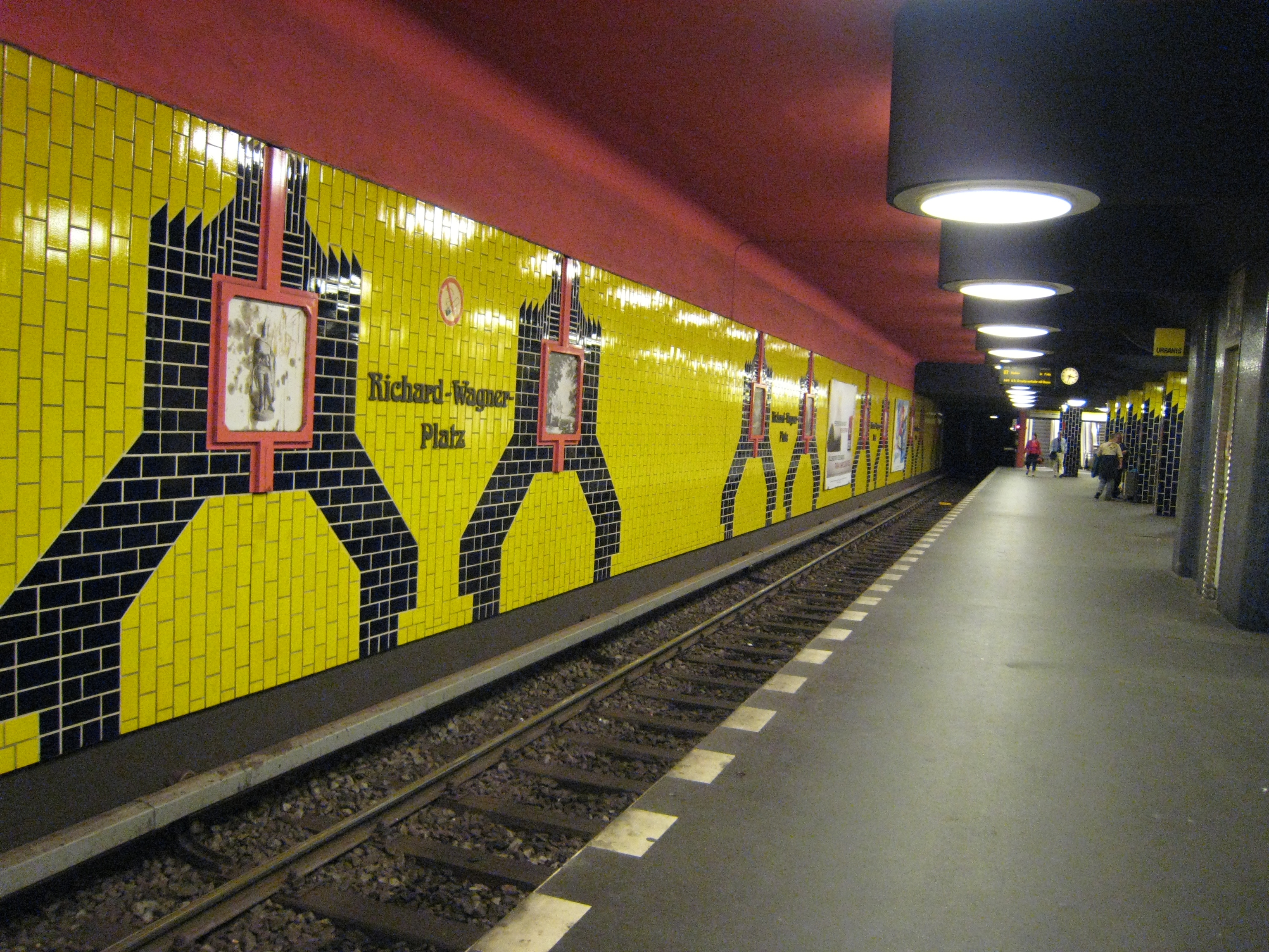 Platform of Berlin U-Bahn station Richard-Wagner-Platz (U7)